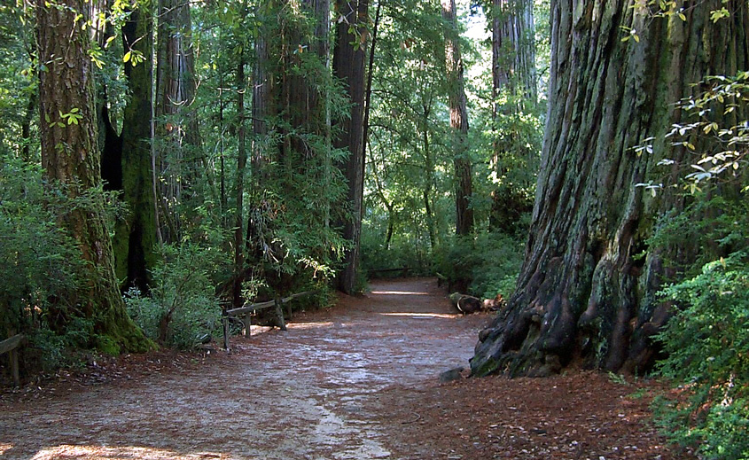 Meandering walkways take visitors through lush Coast Redwood groves in Big Basin Redwoods State Park